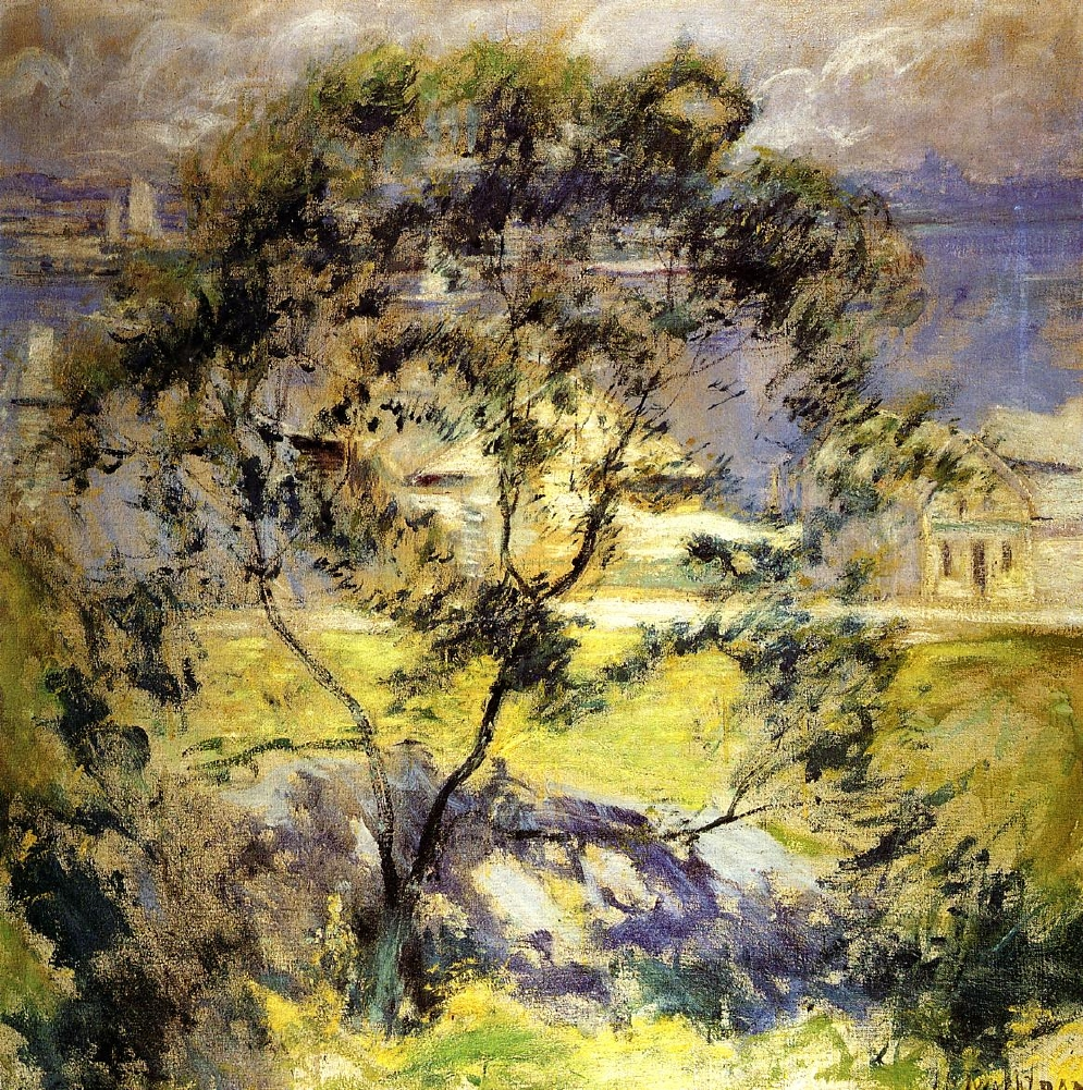 "Wild Cherry Tree," oil on canvas, by the American painter John Twachtman. Courtesy of the Albright-Knox Art Gallery.